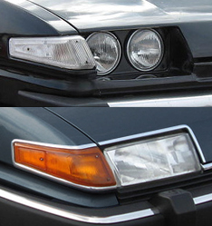 Comparison of SD1 US market and original headlights (US above). Composite from File:Rover sd1 club day black mk1.jpg and File:Rover sd1 club.jpg photos.